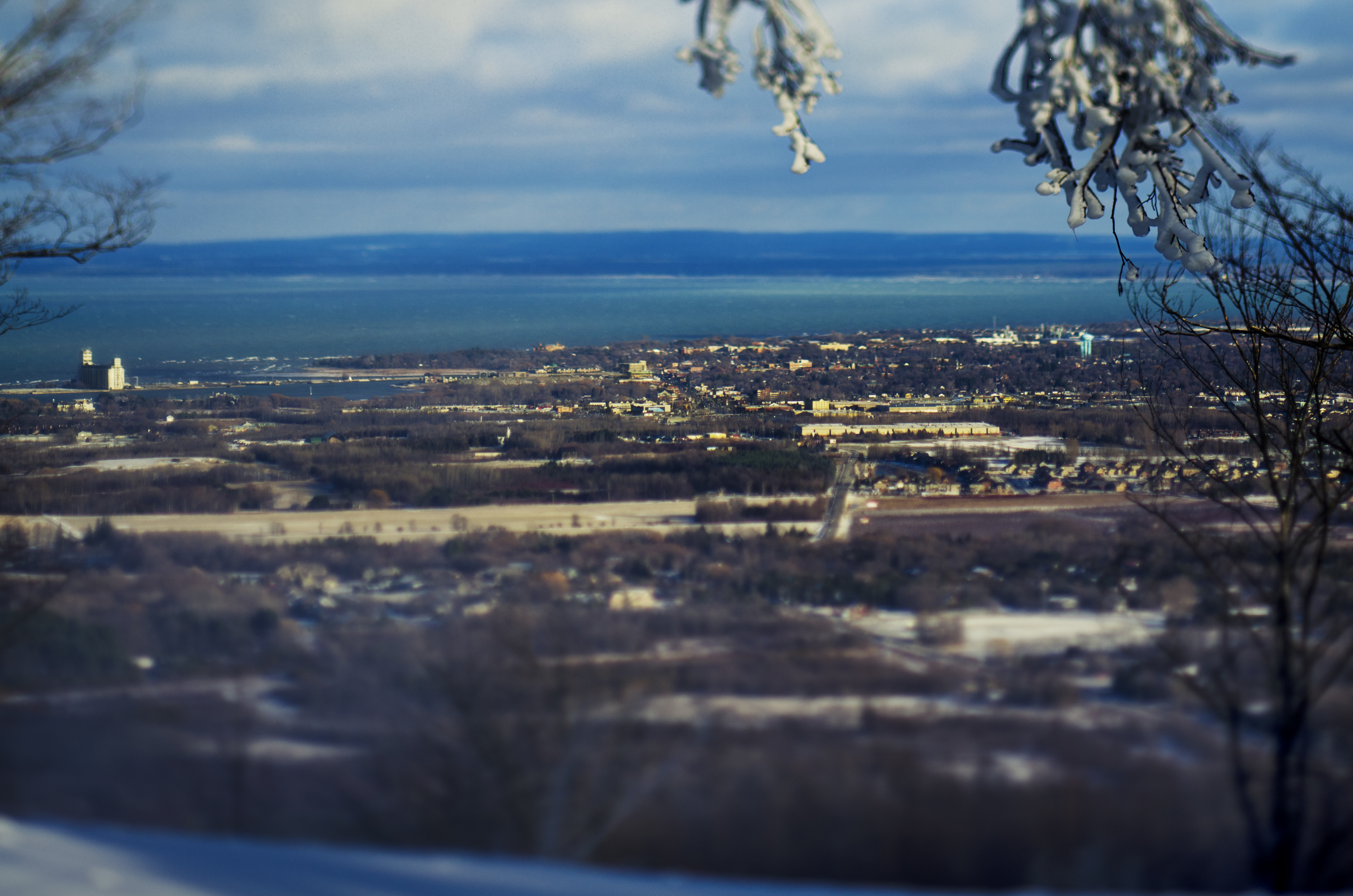 photograph of collingwood, ontario from the top of blue mountain resort in town of the blue mountains, ontario.